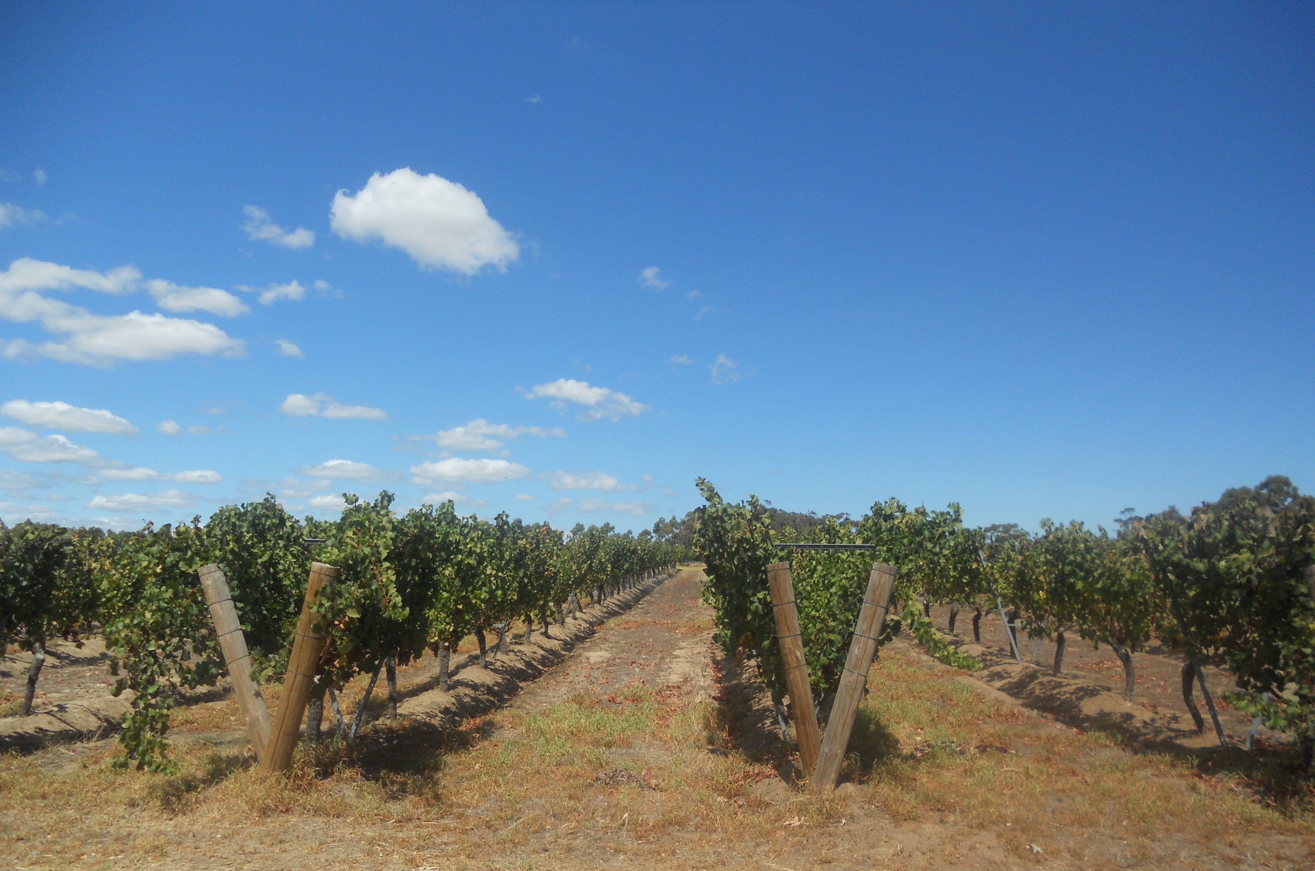 At Cullen Wines. V shape to get air circulating and light penetrating to prevent rot.